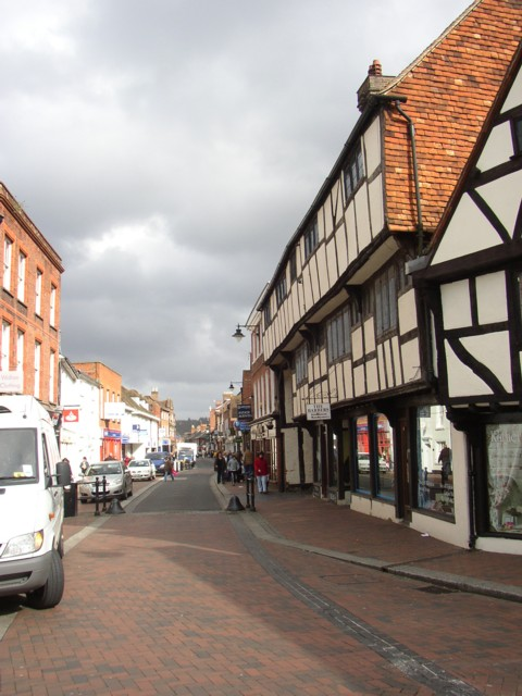 High Street, Godalming. On the right is an impressive 16C timber-framed building of three storeys.